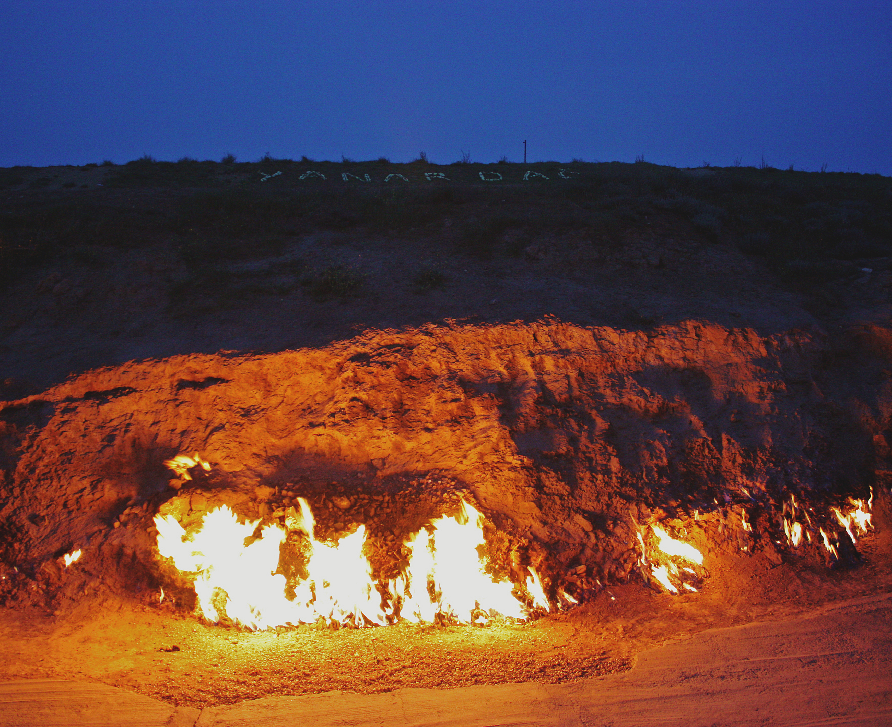 Yanar Dagh in the evening.